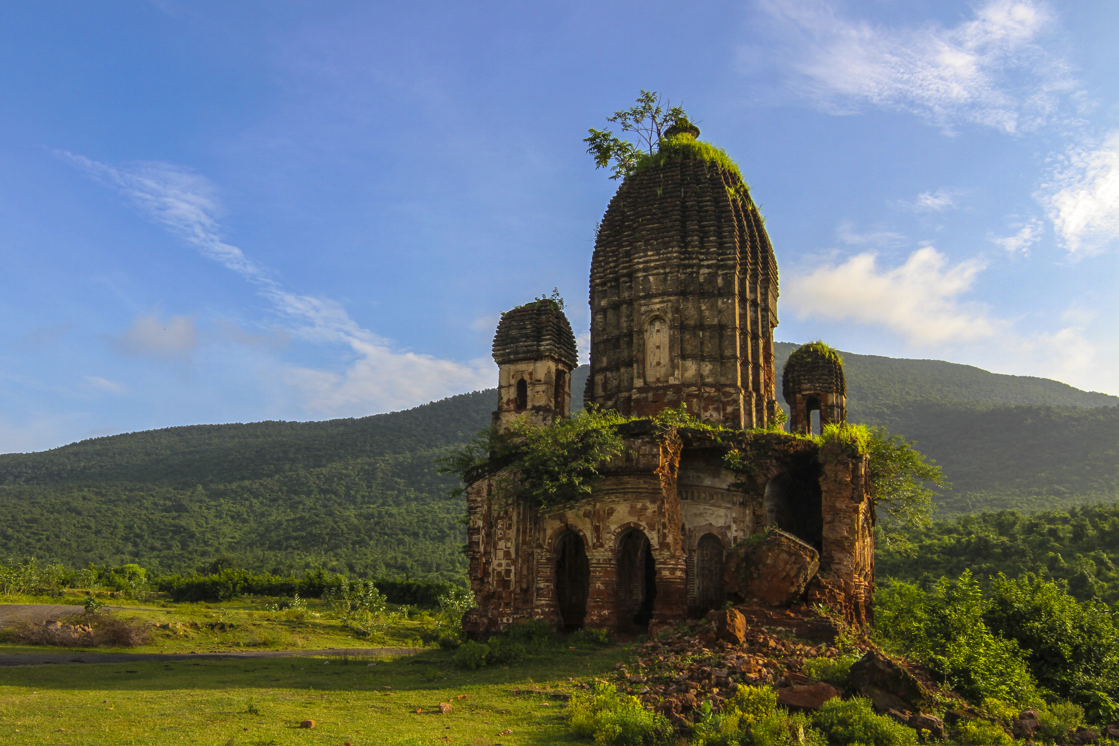 Situated at the foothill of Panchakot(panchet hill),in the north east corner of the Purulia District,close to the boundary with district Burdwan and JharKhand.